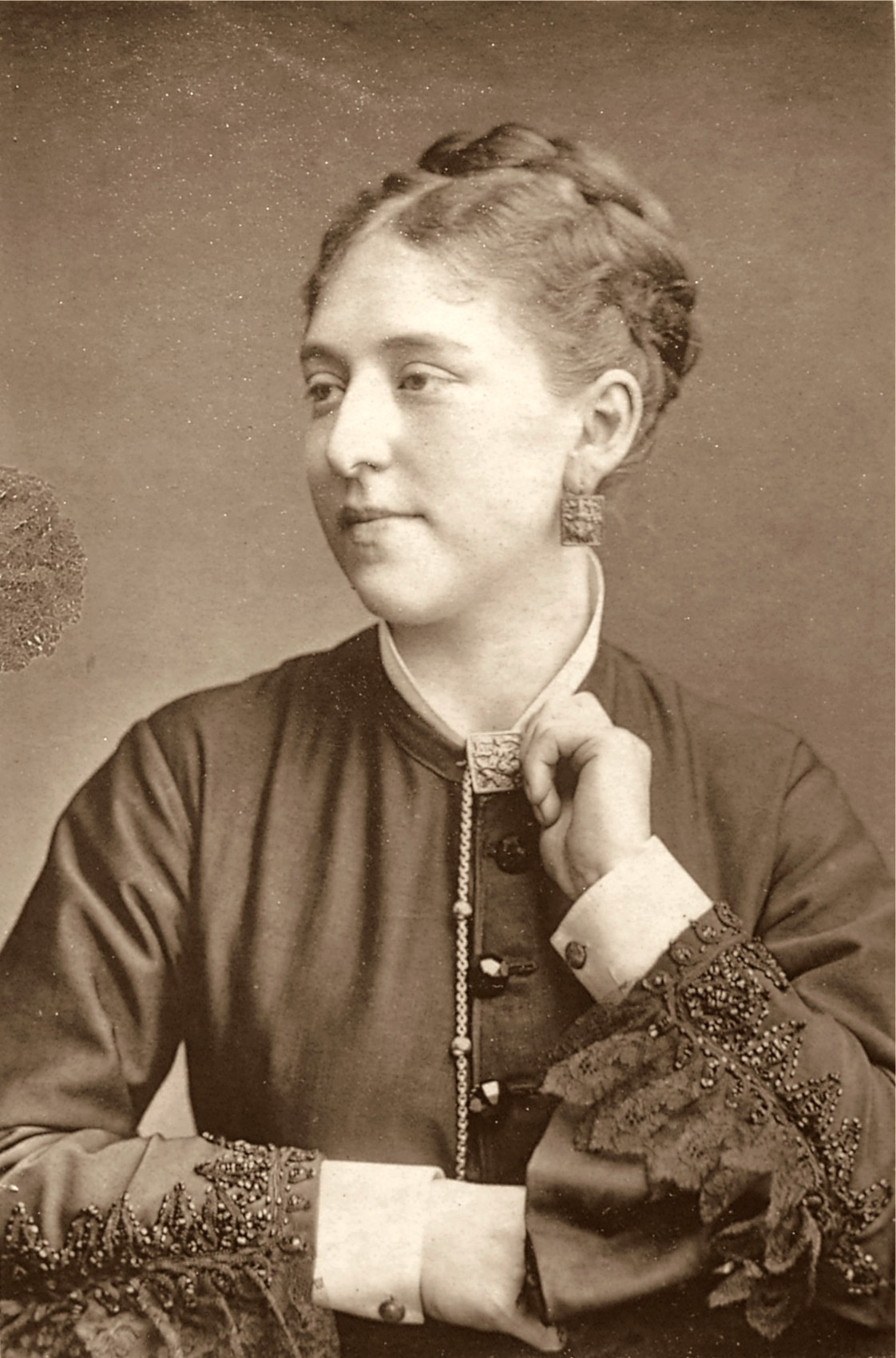 Amy Roselle 1854-1895, English Actress.